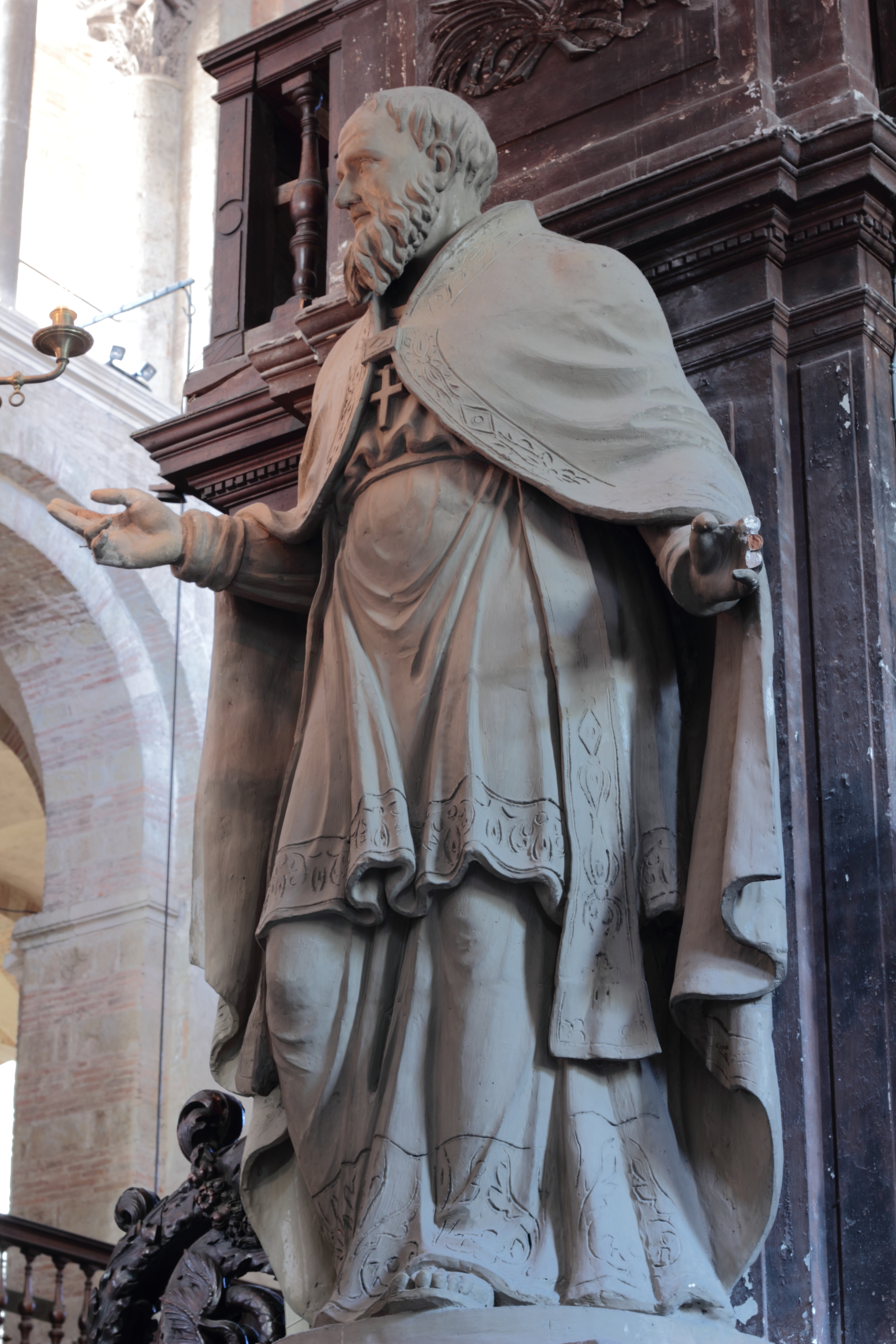 Statue of Saint Silvius in Saint-Sernin